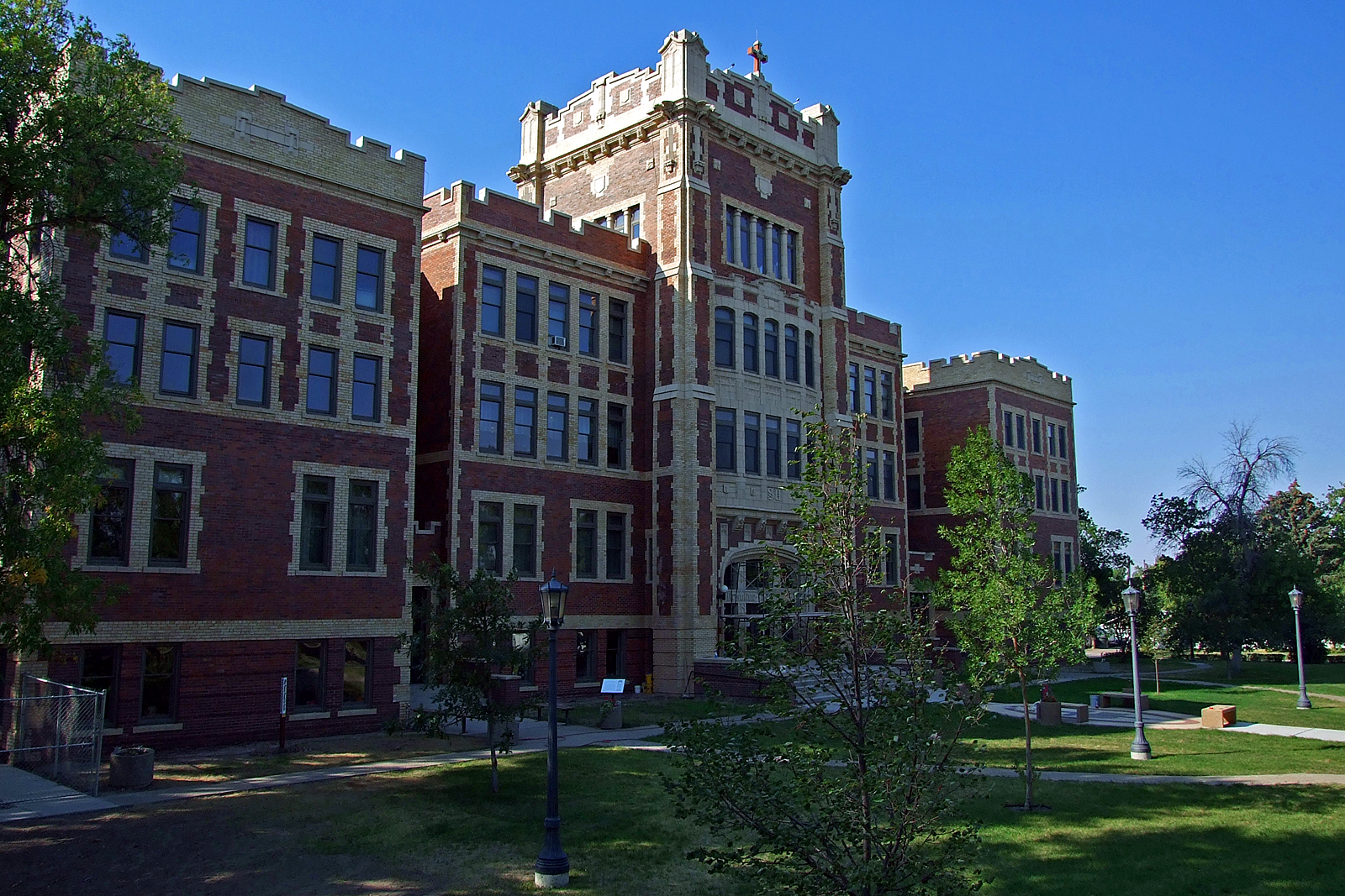 Ursuline Academy — Great Falls, Montana. The Sisters of the Order of St. Ursula came to Montana in 1884 to establish schools for Indians. When the homestead movement created a need for more urban educational facilities, the Great Falls Townsite Company offered the sisters any two city blocks. This site overlooking the city was chosen for its tranquility, removed from the bustle of the city’s center. In 1912, the Ursuline Academy opened its doors to day and boarding students of all denominations. The academy, a detached gymnasium, two shrines, and the grounds comprise the campus. Iconography by Sister Raphael Schweda graces the academy’s interior. Great Falls architect George Shanley chose the Collegiate Gothic Revival style to reflect the academy’s commitment to learning and its ecclesiastical associations. But the building also represents the culmination of the Ursulines’ mission to bring education and culture to Montana’s youth. From a log cabin to this grand and noble institution of learning, the “lady black robes” have touched the lives of thousands of Montanans. The sisters continued their mission teaching at the academy until it became the Ursuline Centre in 1971. The sisters who reside within its lofty halls continue to serve in the community and graciously open their home to ecumenical activities.